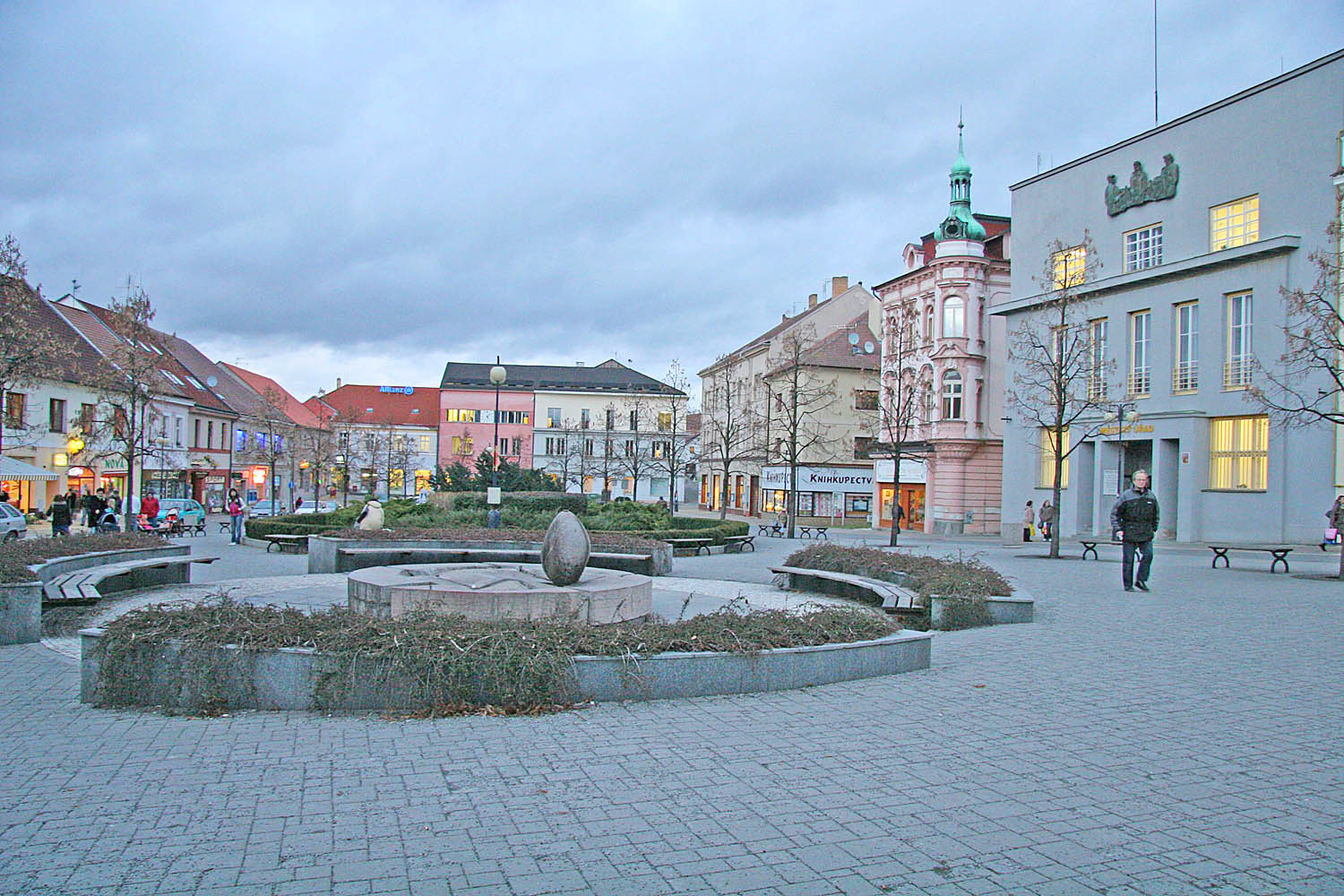 Masarykovo square in Benešov (Czechia)